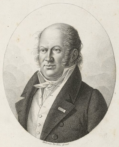 Scientist: Geoffroy Saint Hilaire, Etienne (1772 - 1844). Medium: Engraving. Original Dimensions: Graphic: 10.5 x 8.6 cm / Sheet: 21.4 x 14.7 cm.